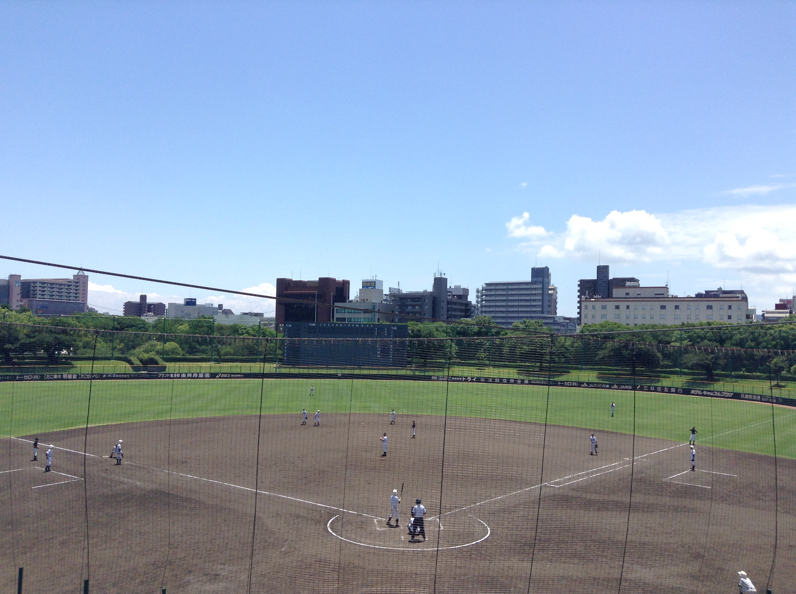 Akashi Park baseball field （a.k.a Akashi Tocalo baseball field).